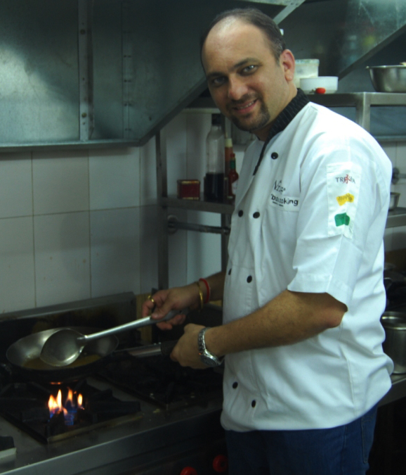 Indian celb chef